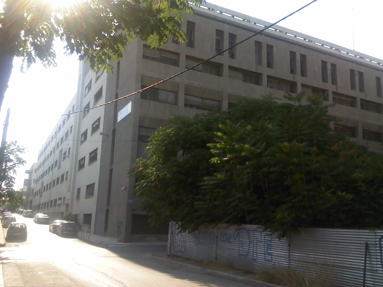 Factory Papastratos in Pireas